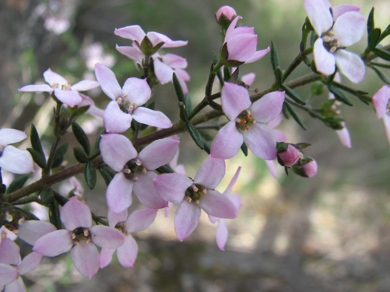 Zieria aspalathoides, Kooyoora State Park, Victoria, Australia